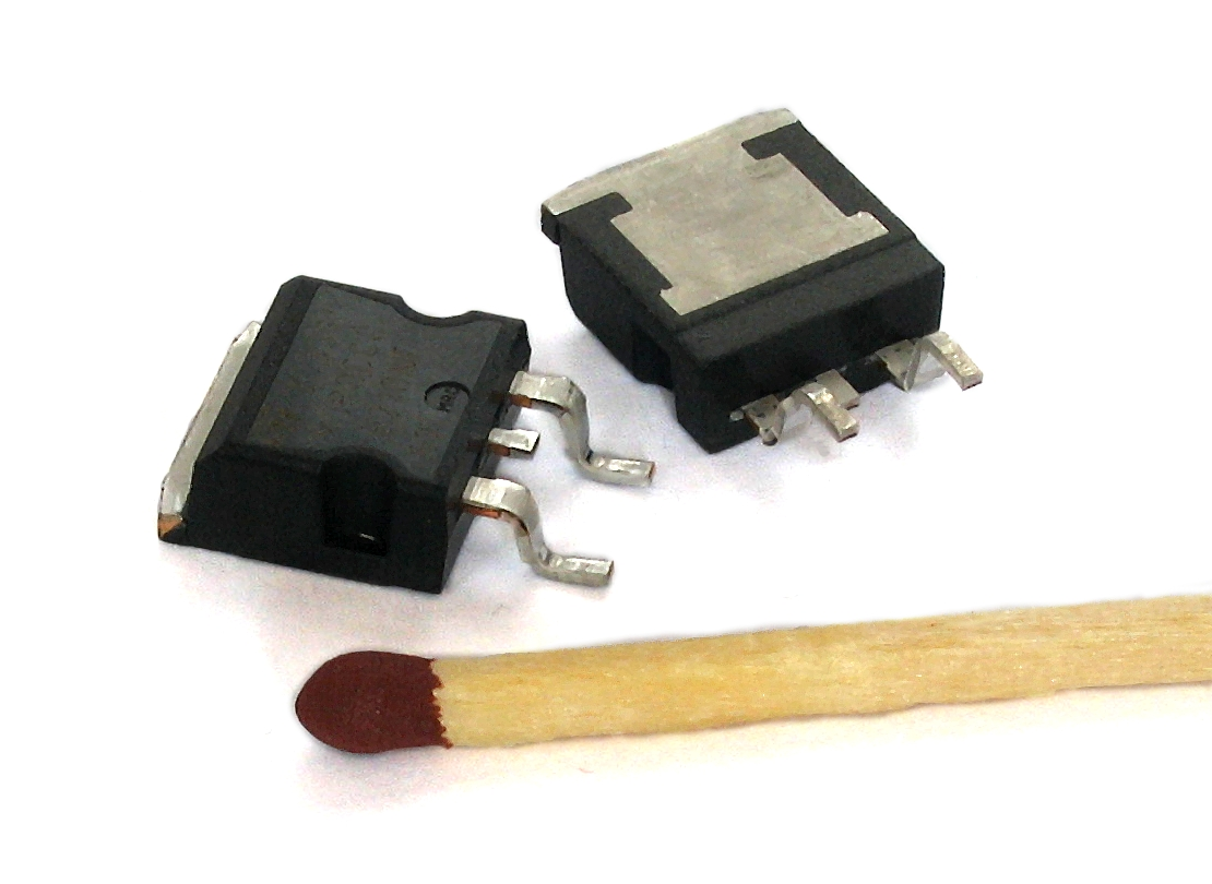 Cyril BUTTAY -- Two MOSFET in D2PAK package. These are 30-A, 120-V-rated each.